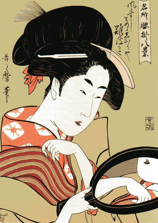 Scanned into computer on May 1, 2010.